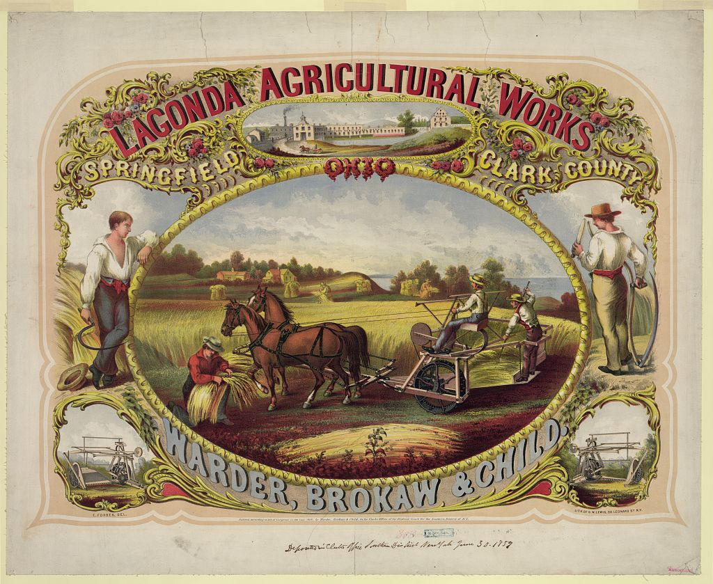 c. 1859, Lagonda Agricultural Works, lithograph by Edwin Forbes. Library of Congress Prints and Photographs Division, LOC #LC-DIG-pga-02032.